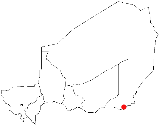 Diffa, Niger Location Map; created with the GIMP. Made by User:Acntx.